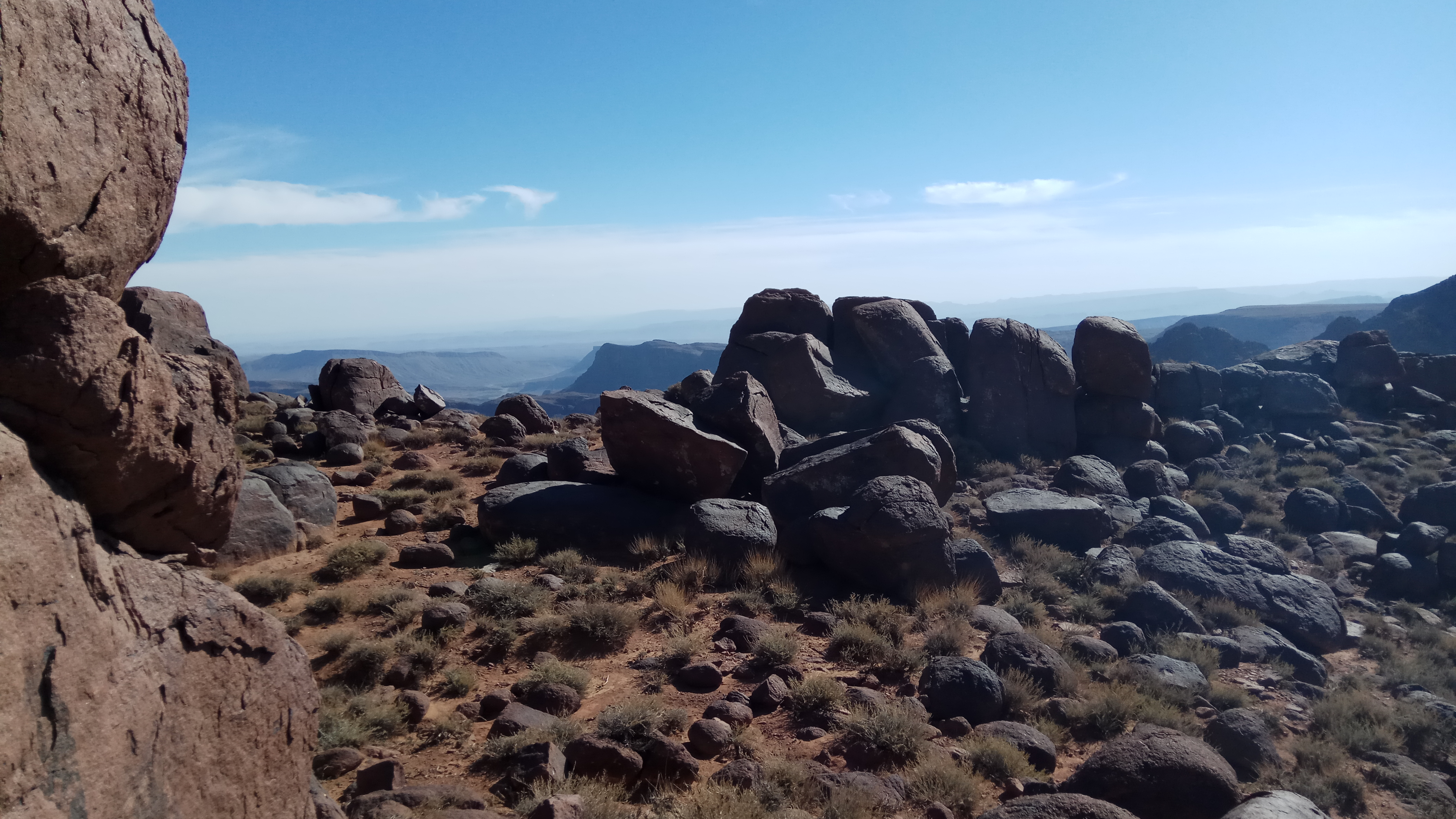 Au sommet des montagnes de saghro, ait aata